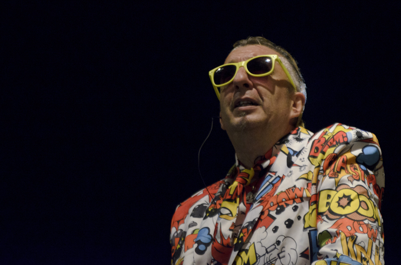 Pipi, frontman of The Locos at Tormenta Sound Festival 2017 (Burguillos del Cerro, Badajoz, Spain)